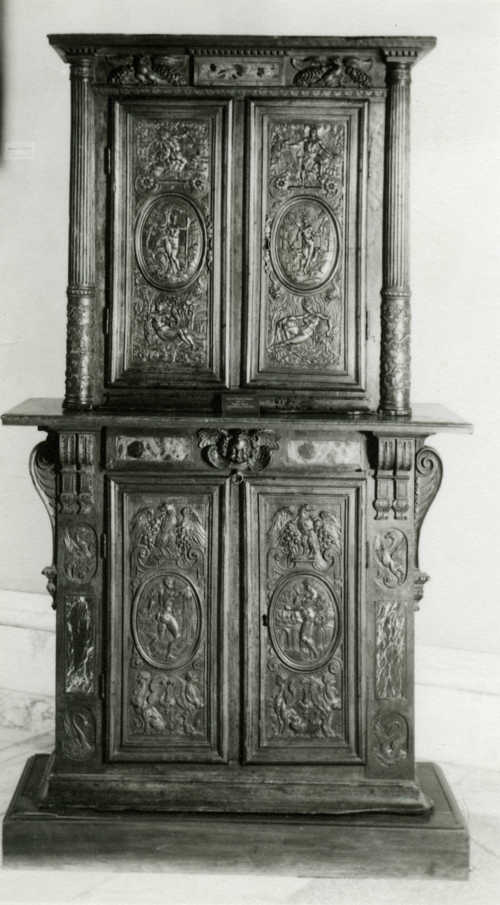 This double cabinet features the combination of architectural elements and relief carving that is characteristic of French furniture of the period. The elegant figural designs of the door panels often feature graceful but conventional allegorical figures copied from prints. Here, for example, the symmetrical ovals on the upper doors depict Minerva, goddess of wisdom (in military affairs) and Diana, chaste goddess of the hunt. Above and below are carved the four elements: Fire, Earth, Air, and Water. The base of the chest is a replacement.